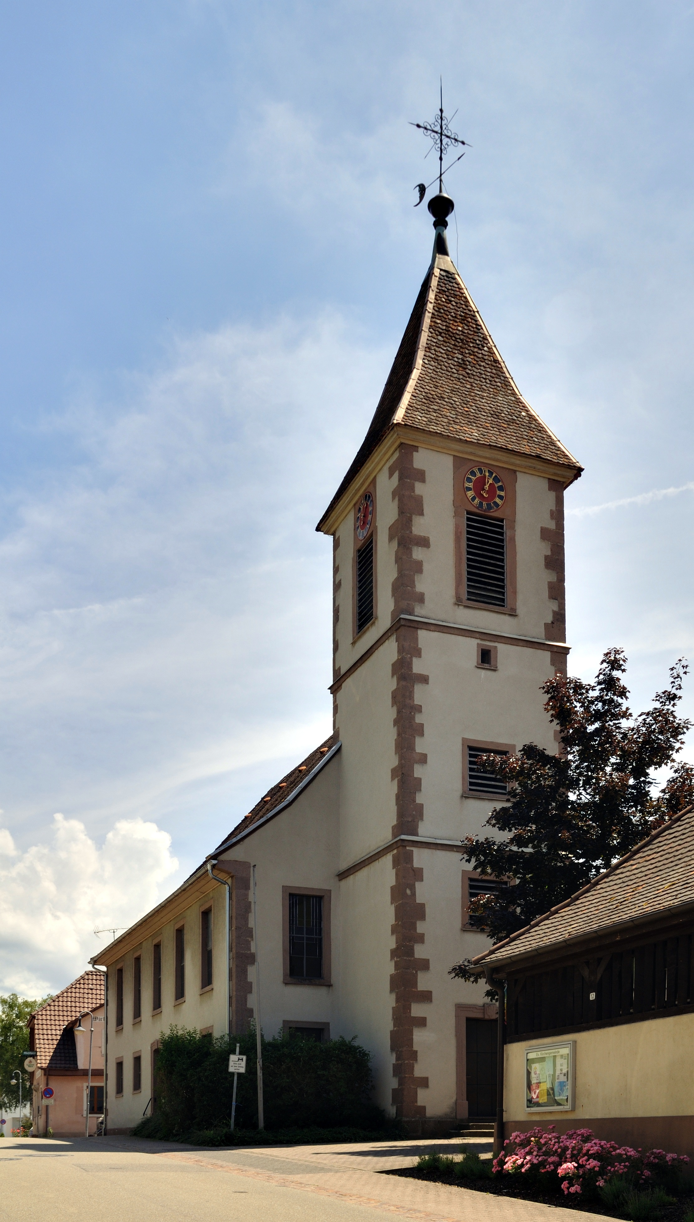 Bad Bellingen-Hertingen: Protestant Church